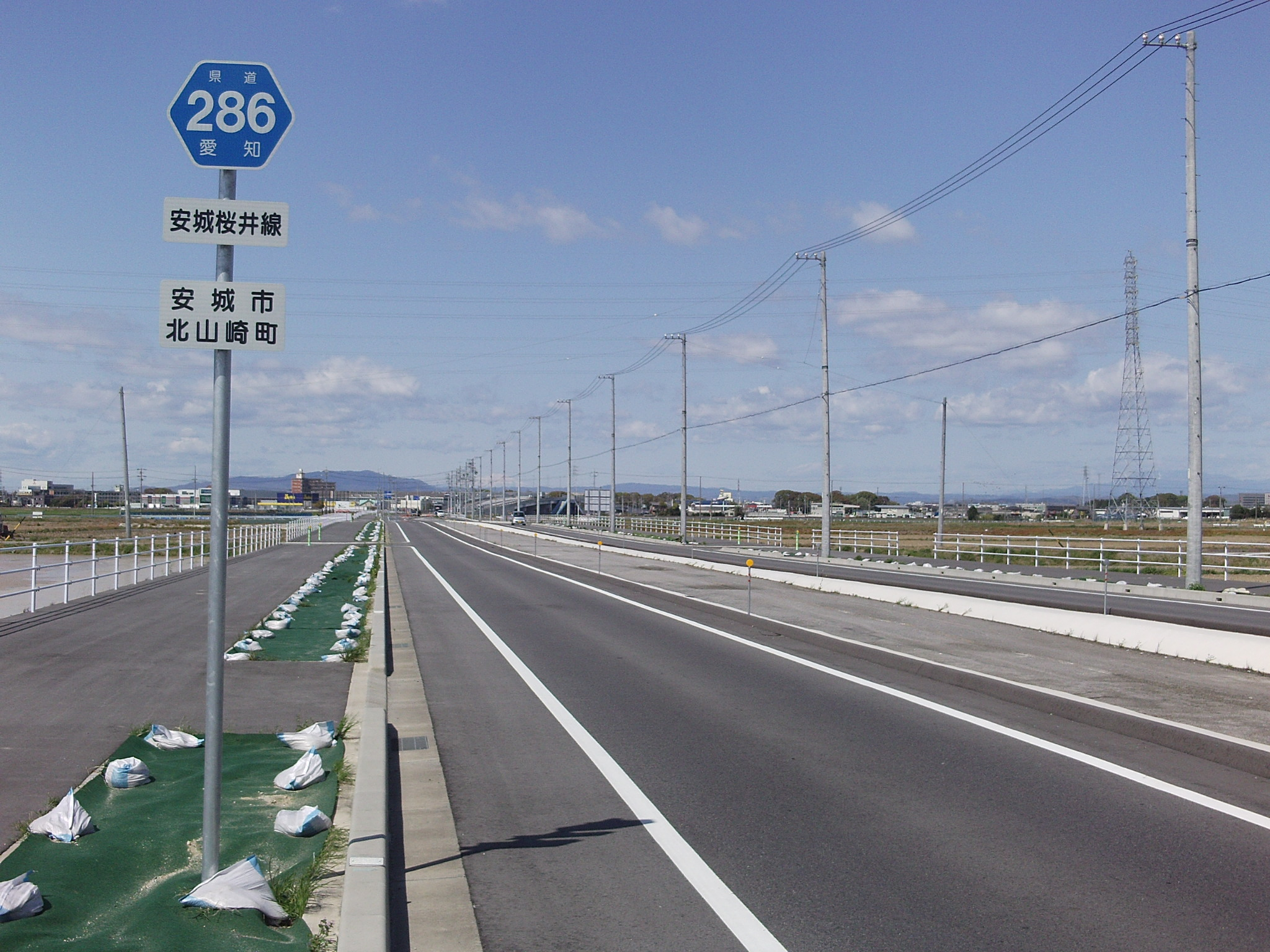 Aichi prefectural road No.286 in Kitayamazakicho, Anjo, Aichi.